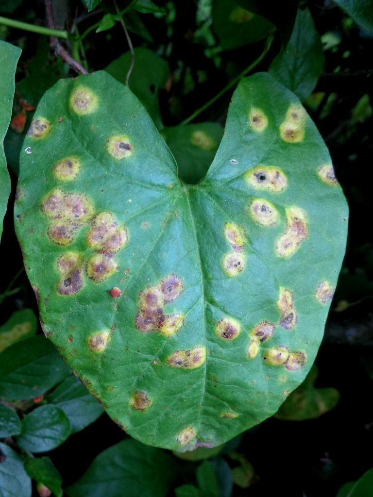 Puccinia convolvuli. Found in Rīga town, Latvia